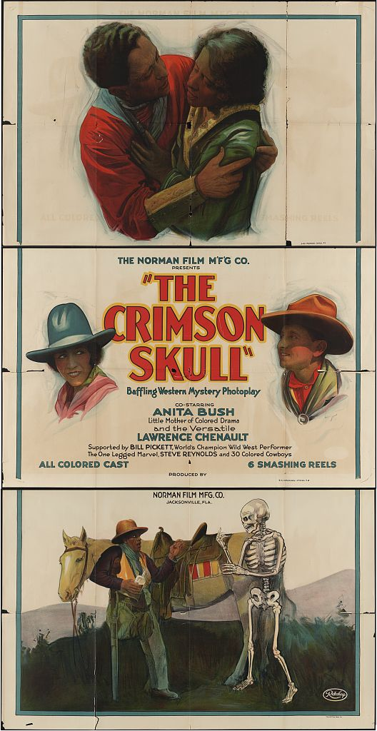 Poster for the American film The Crimson Skull (1922) - Co-starring Anita Bush, "Little Mother of Colored Drama" and the Versatile Lawrence Chenault.